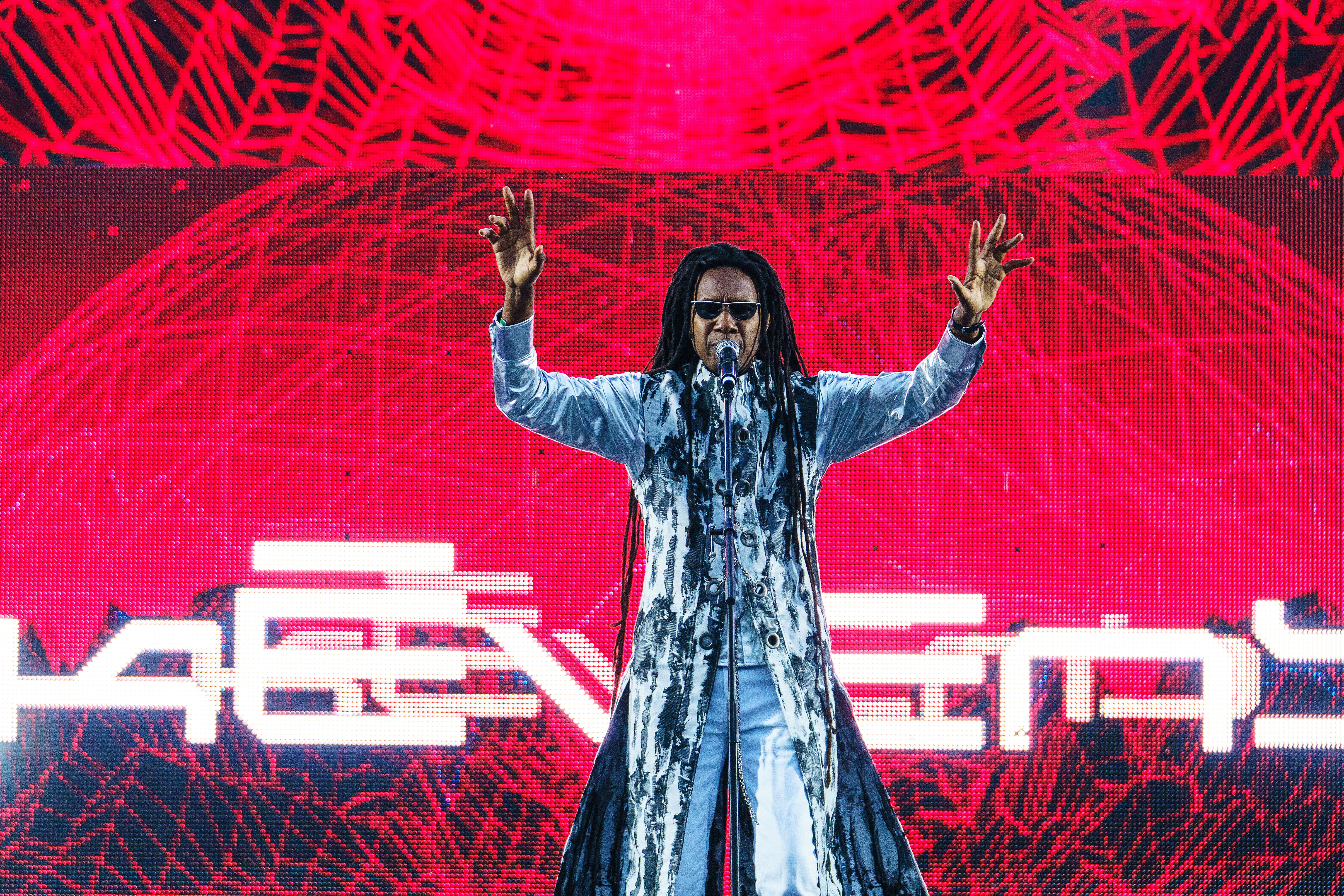 Kēvens co headline the live state along with Ice Cube and CL at UltraKorea on June 10-18